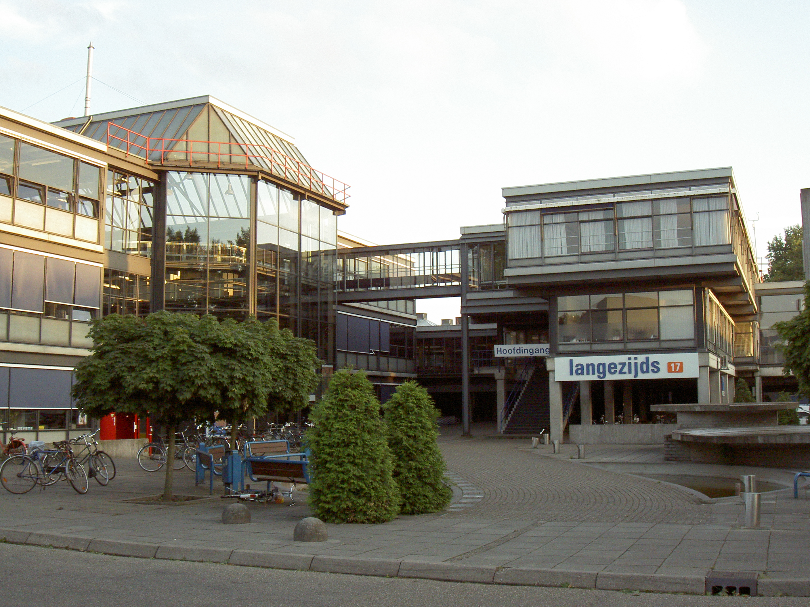 The Langezijds building, houses most of the Chemical Engineering staff. Actually quite an old building. Also visible is the Art Academy (AKI); this is not part of the University, but does reside on the Campus.